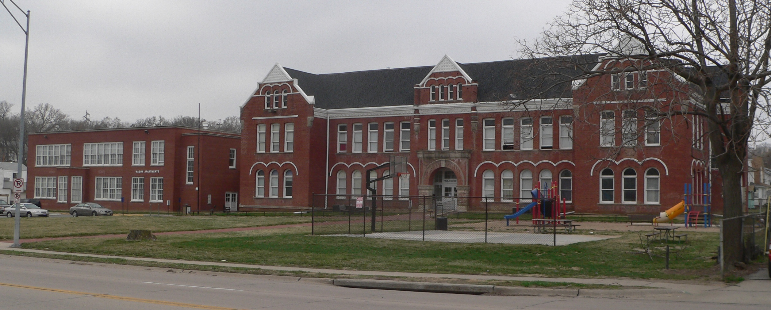 Mason School, located at 1012 S. 24th Street in Omaha, Nebraska; seen from the northeast.